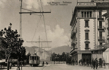 Pallanza, tramway.jpg